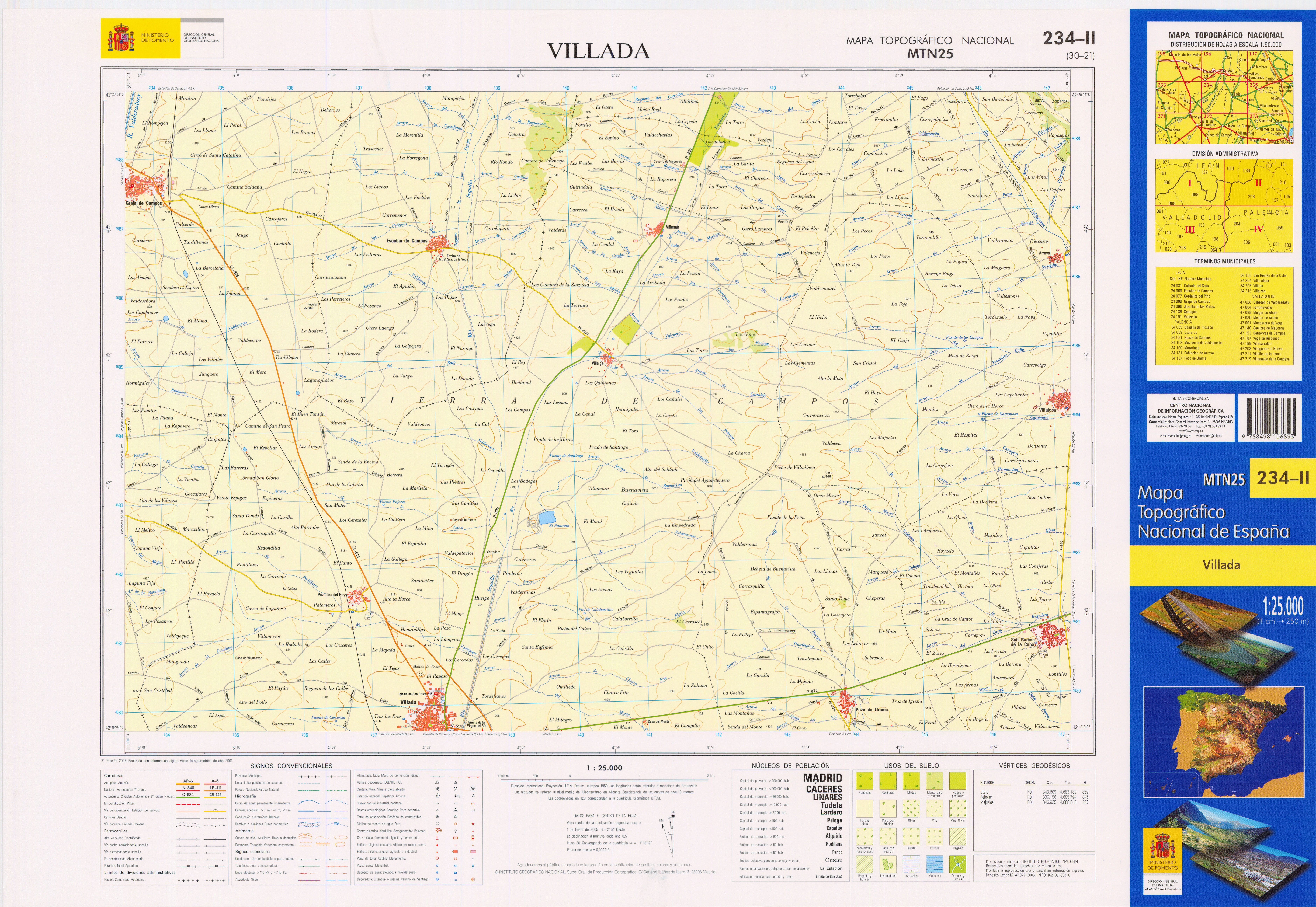 Fragment 0234c2 of the National Topographic Map of Spain in 2005 at a scale of 1:25000 printed and scanned with a resolution of 250 ppi. It shows Villada.